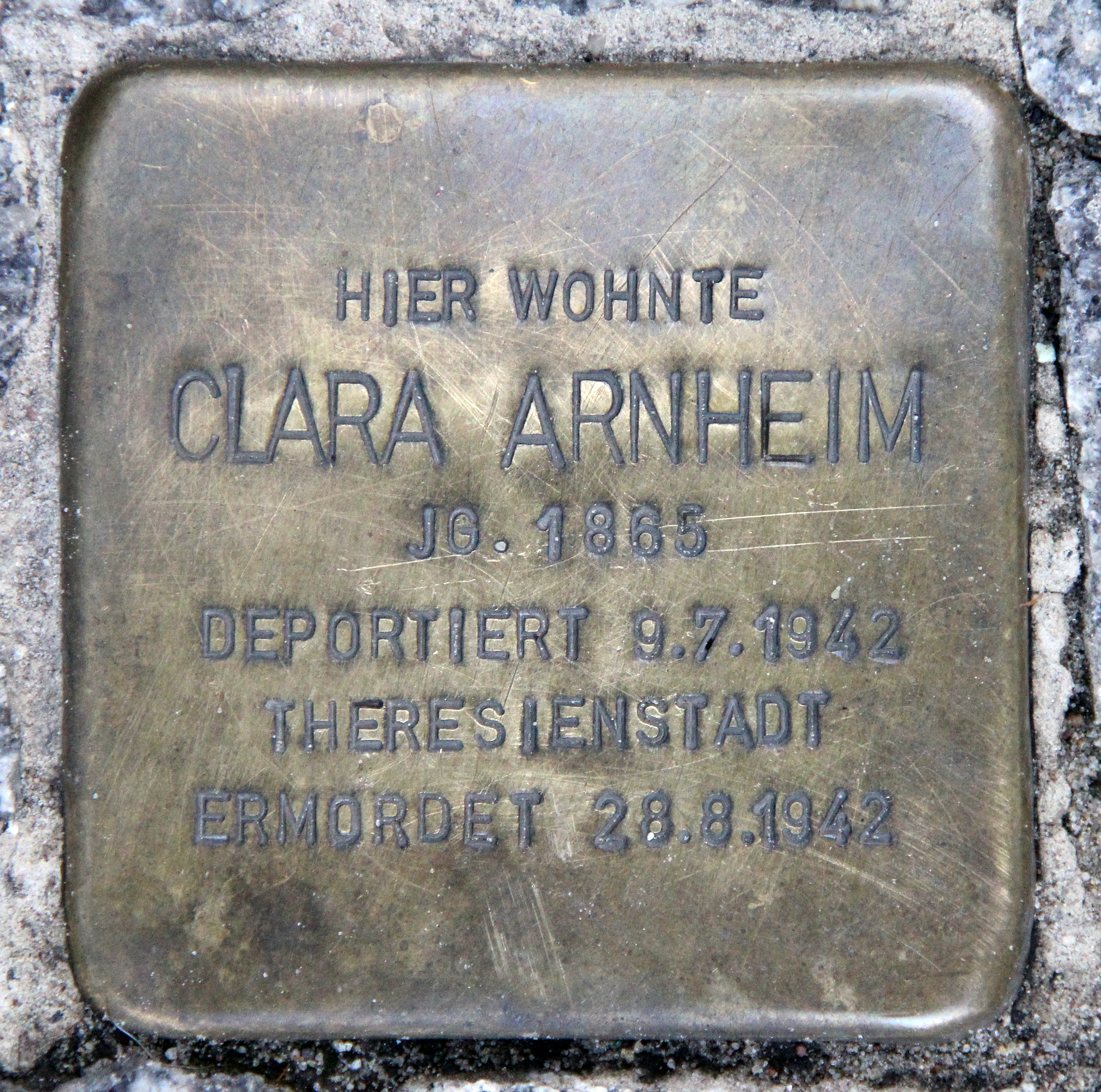 "Stolperstein" (stumbling block), Clara Arnheim, Uhlandstraße 182, Berlin-Charlottenburg, Germany